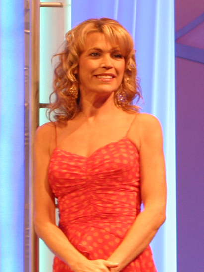 Vanna White stands beside a puzzle during a taping of "Wheel of Fortune" at Sony Entertainment Studios in Los Angeles Feb. 8. The first letter White turned on the popular game show was the letter "T." The show, which is in its 23rd season, featured 15 servicemembers, two of which Marines from Marine Corps Base Camp Pendleton, Calif., when it hosted "Wheel Salutes the Armed Forces," which is scheduled to air the week of April 3.